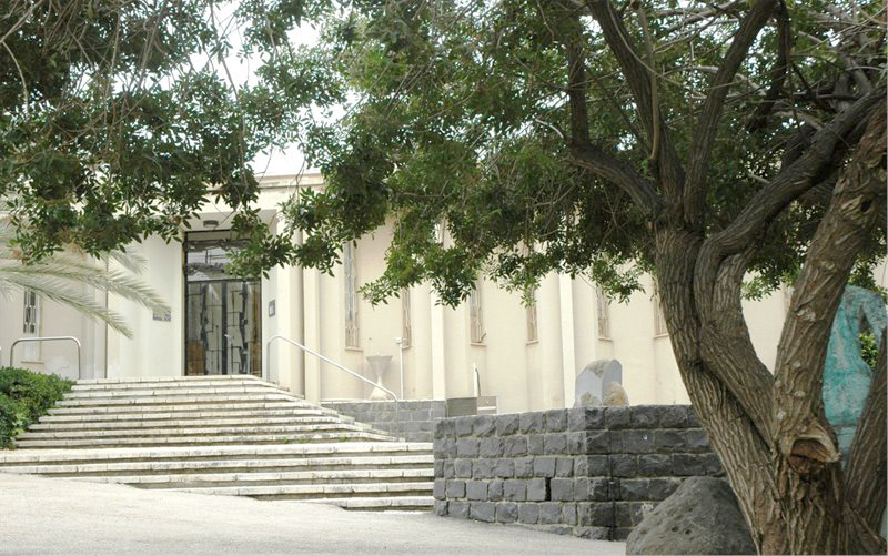 Ein Harod Museum facade, 2010